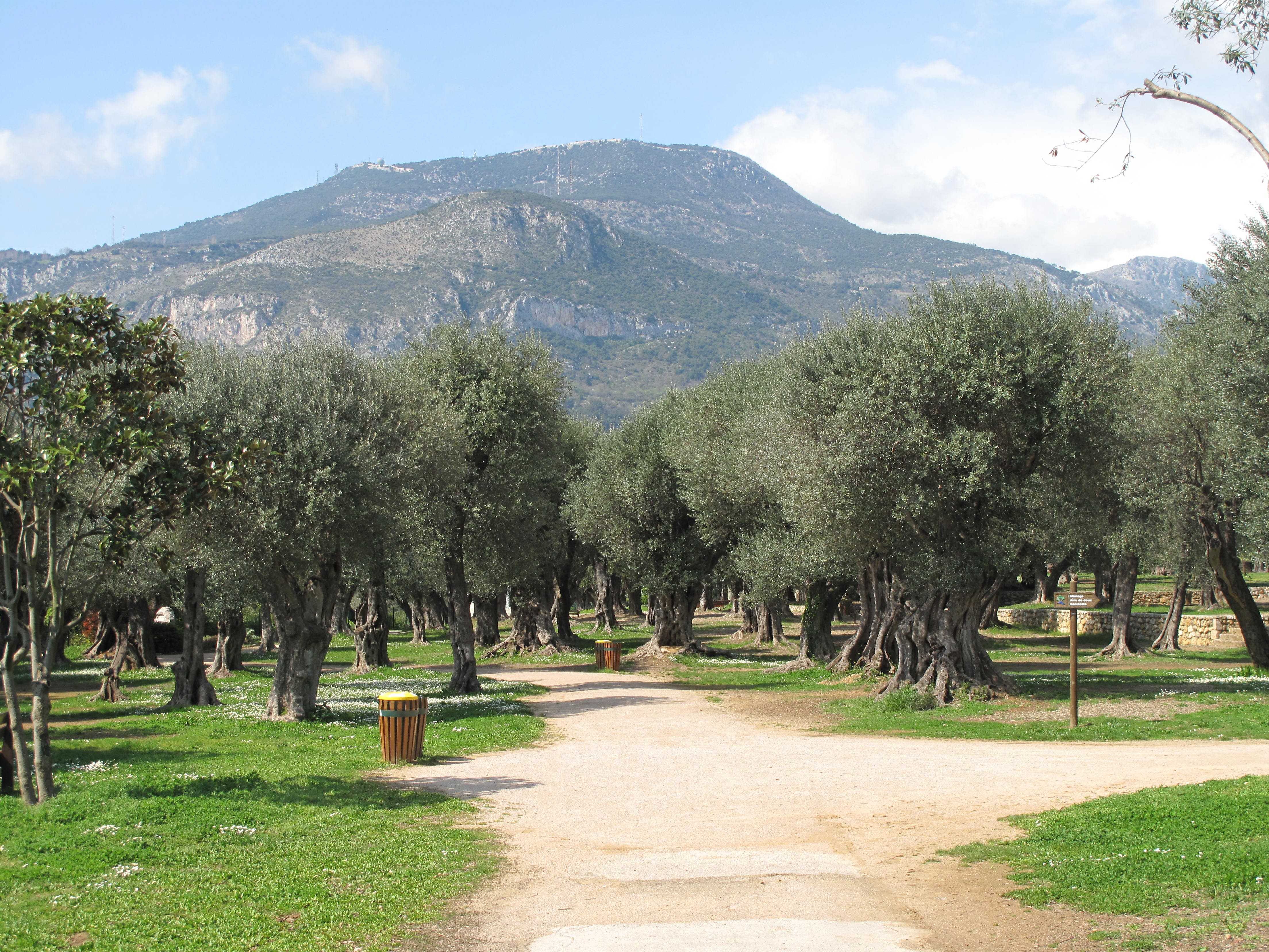 The garden of olive trees in Cap-Martin, Alpes-Maritimes, France. In the background, the mont Agel